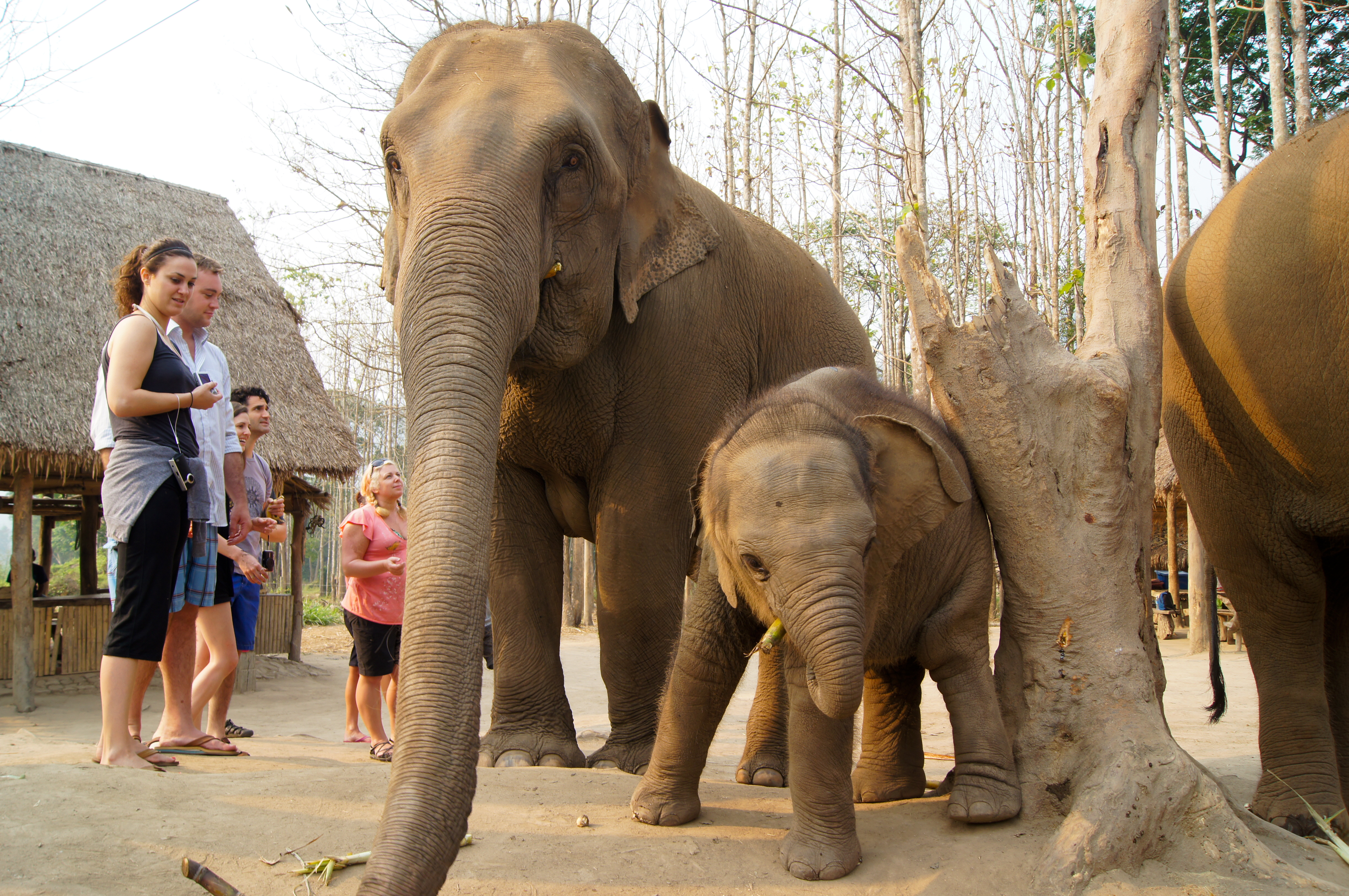 Patara Elephant Sanctuary, Chiang Mai 2012